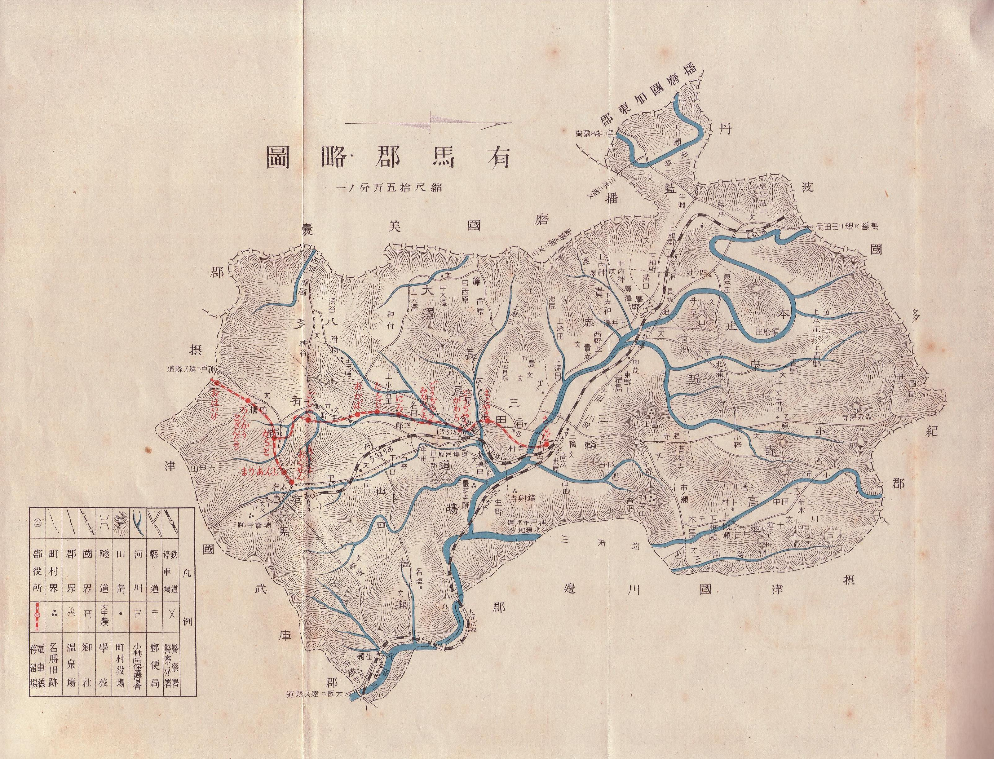 Arima county in Hyogo